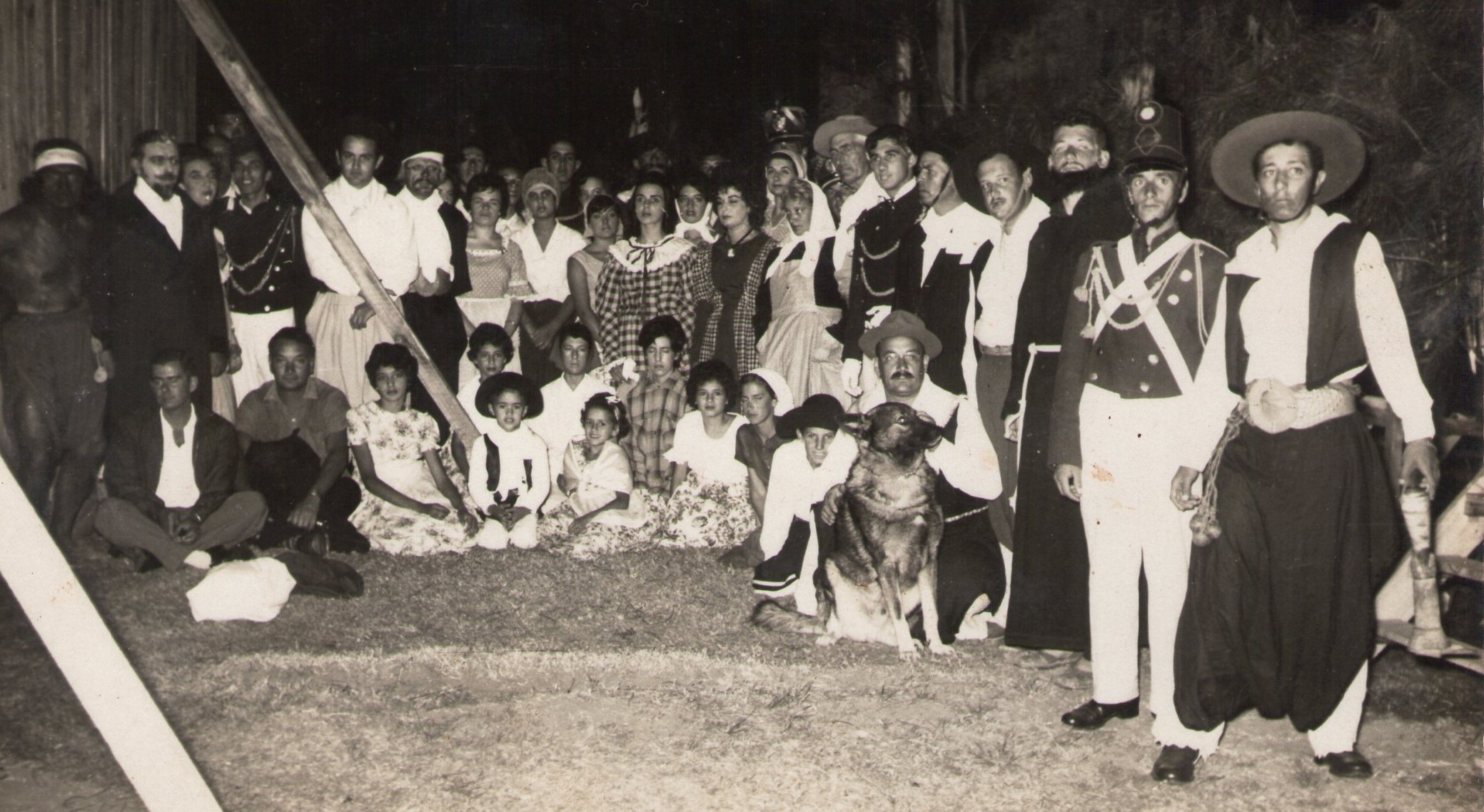 Tribute to the national hero of Uruguay, general José Gervasio Artigas.